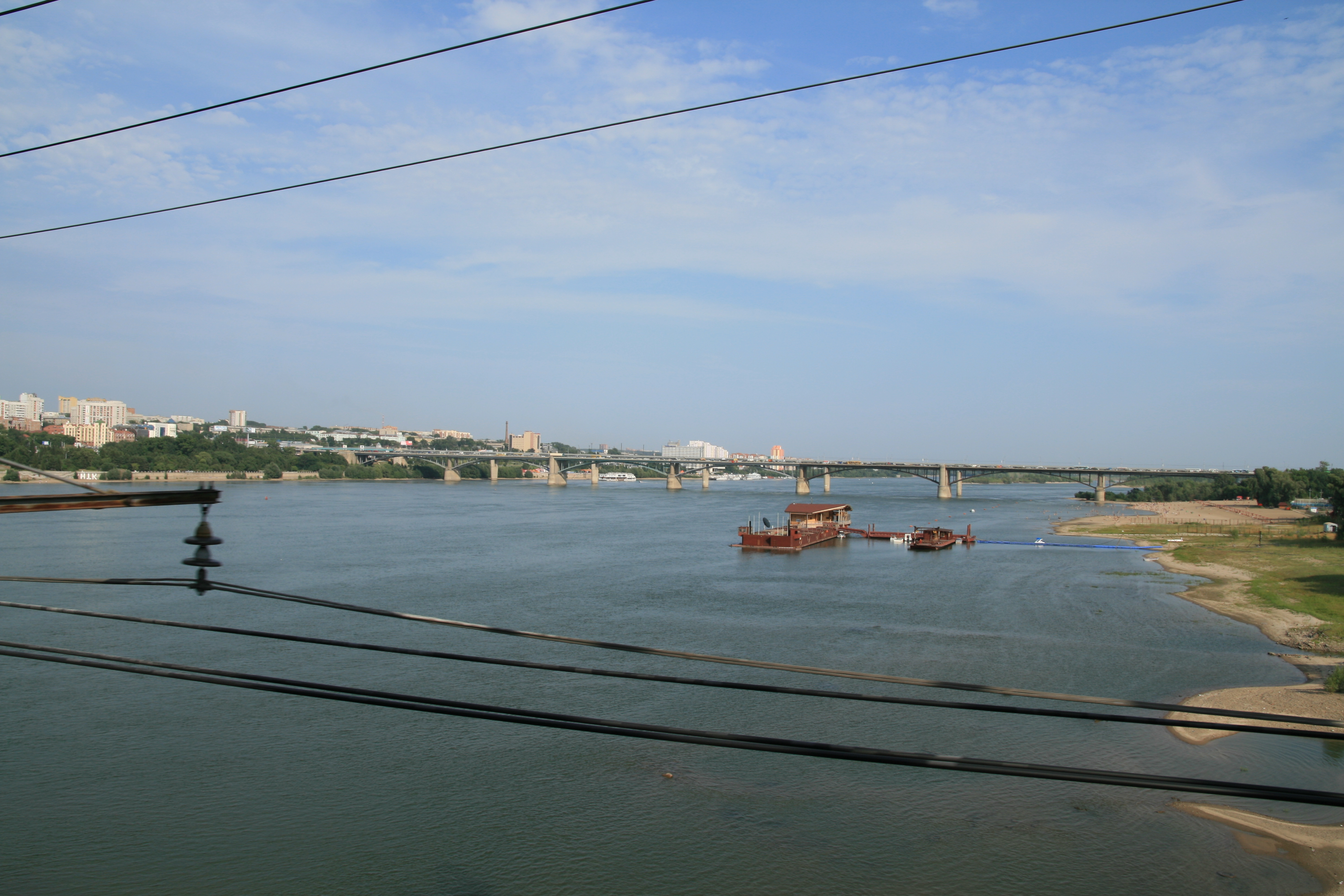 Train crossing a railway bridge over the river Ob into Novosibirsk.